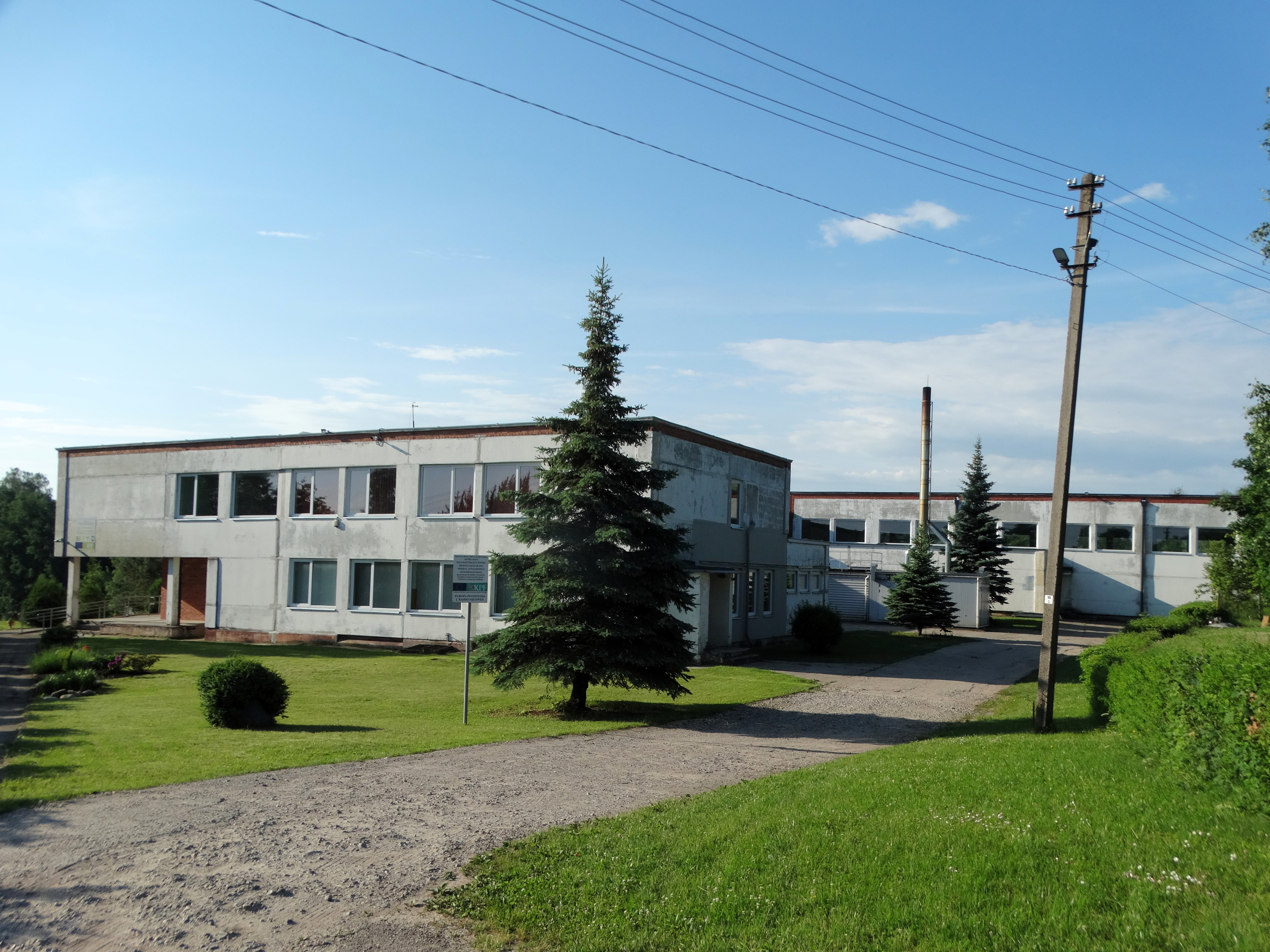 Batėgala, school, Jonava district, Lithuania